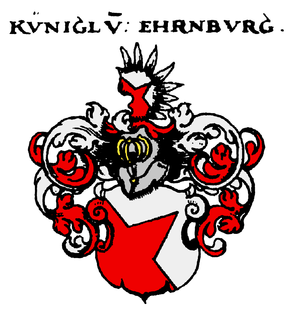 Coat of Arms of Künigl von Ehrenburg